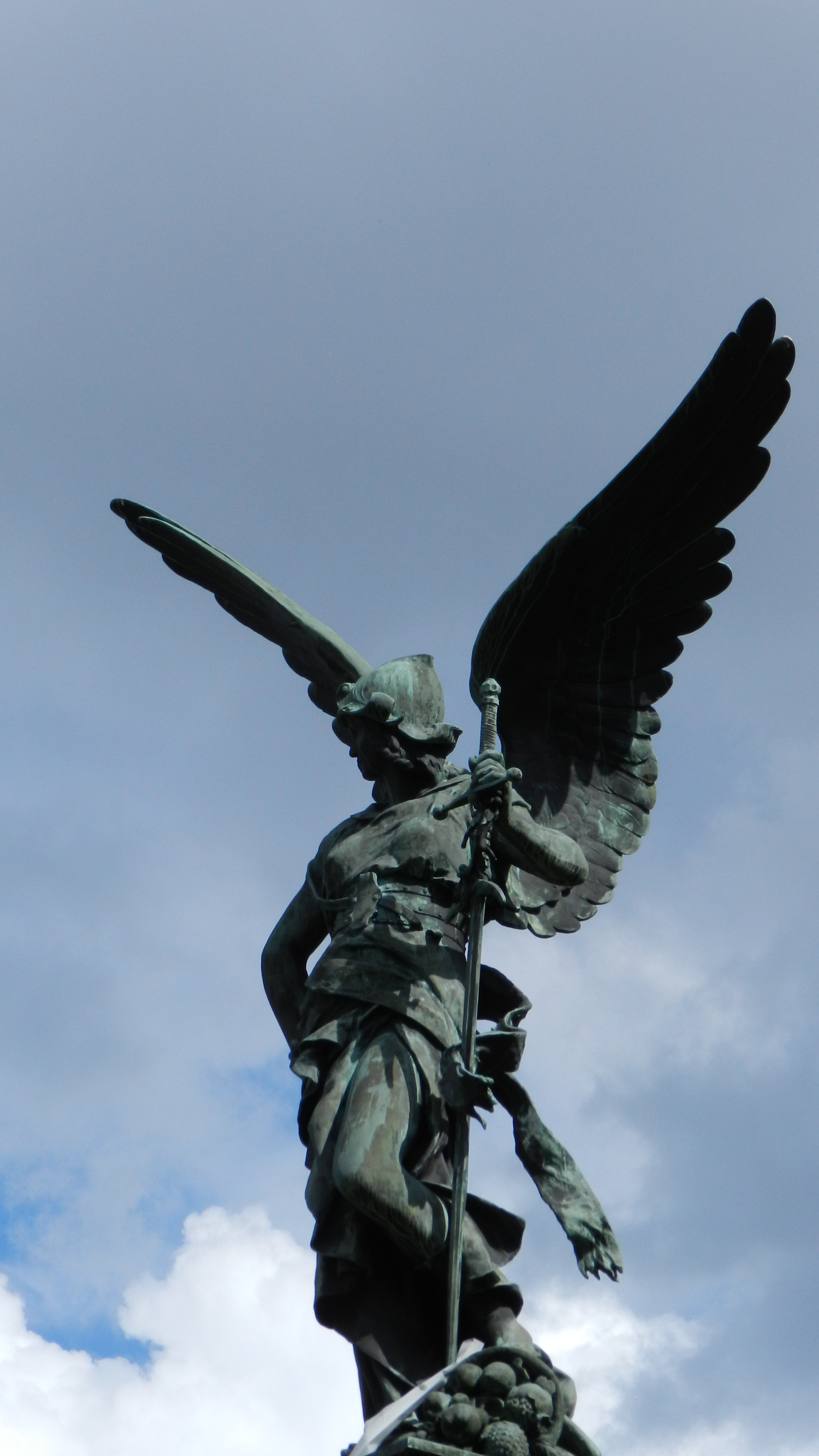 Colonne de la Paix Armée by Jules Coutan, Parc Montsouris, Paris.